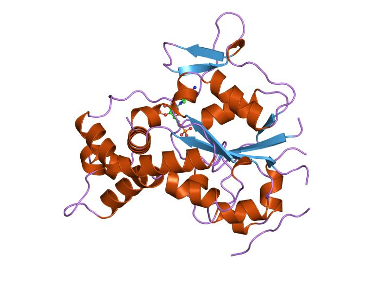 Cartoon representation of the molecular structure of protein registered with 1nst code.